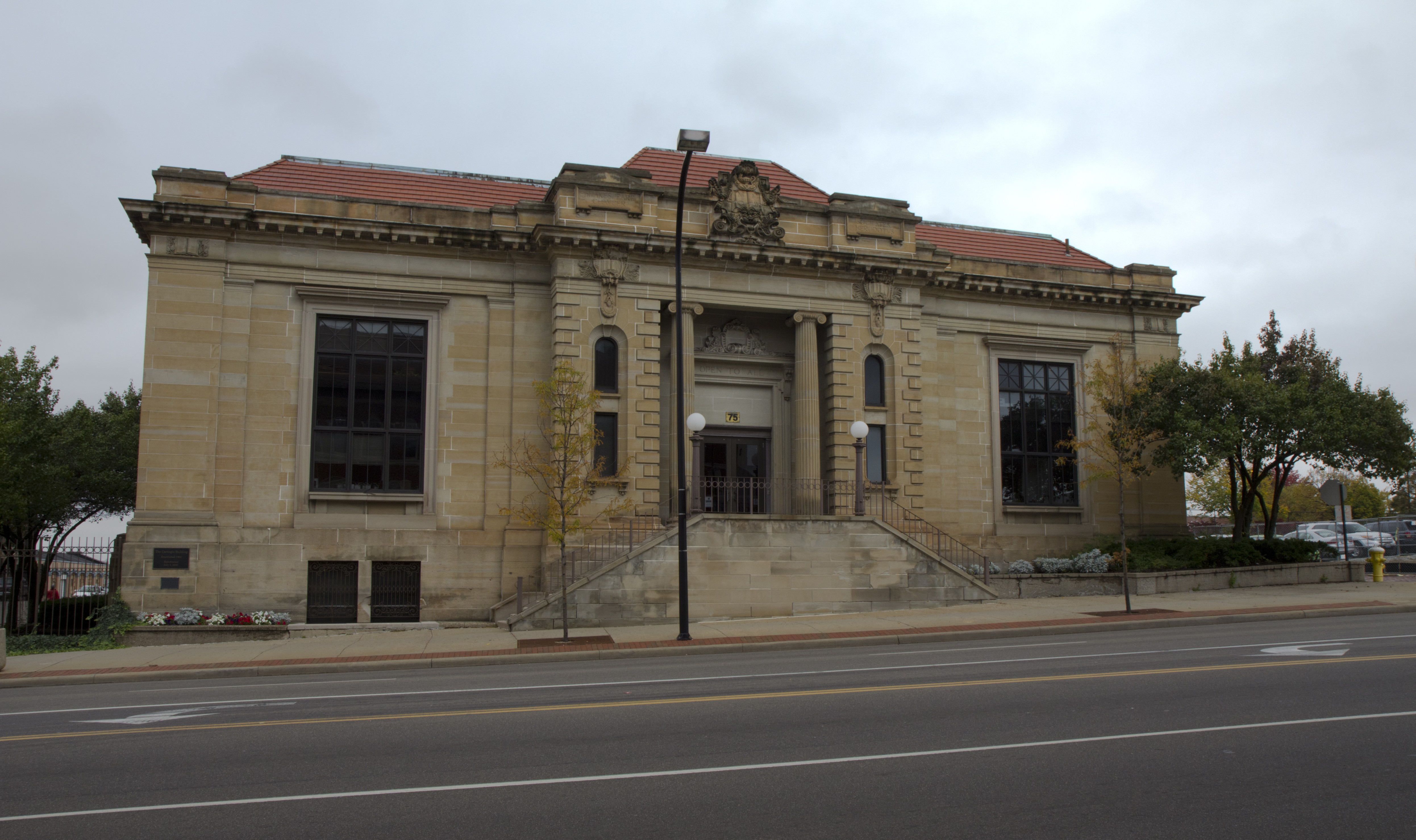 Akron Public Library (Carnegie Building), 69 East Market Street, Akron, Summit County, Ohio - view north showing south face.